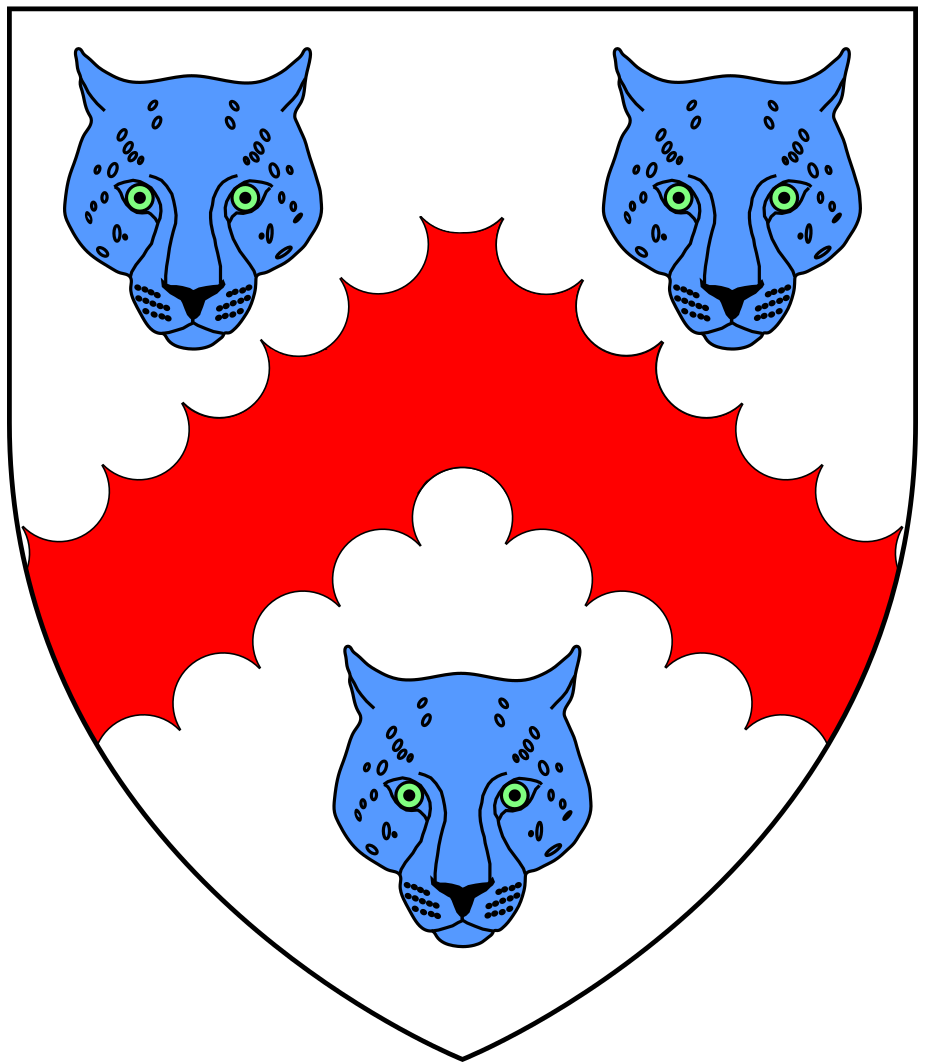 Arms of Coplestone of Coplestone, Devon: Argent, a chevron engrailed gules between three lion's faces azure (Vivian, Lt.Col. J.L., (Ed.) The Visitation of the County of Devon: Comprising the Heralds' Visitations of 1531, 1564 & 1620, Exeter, 1895, p.224)